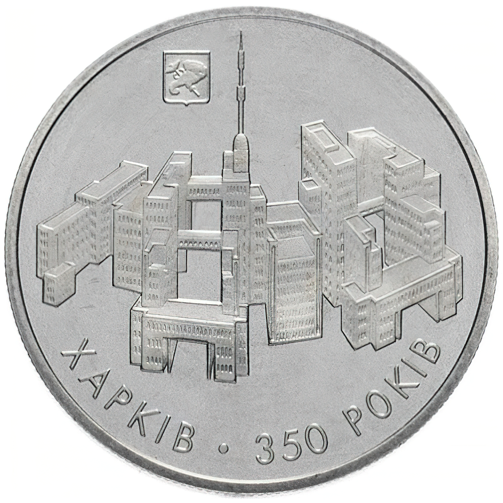 Ukrainian Coin Kharkov 350 years reserve 2004